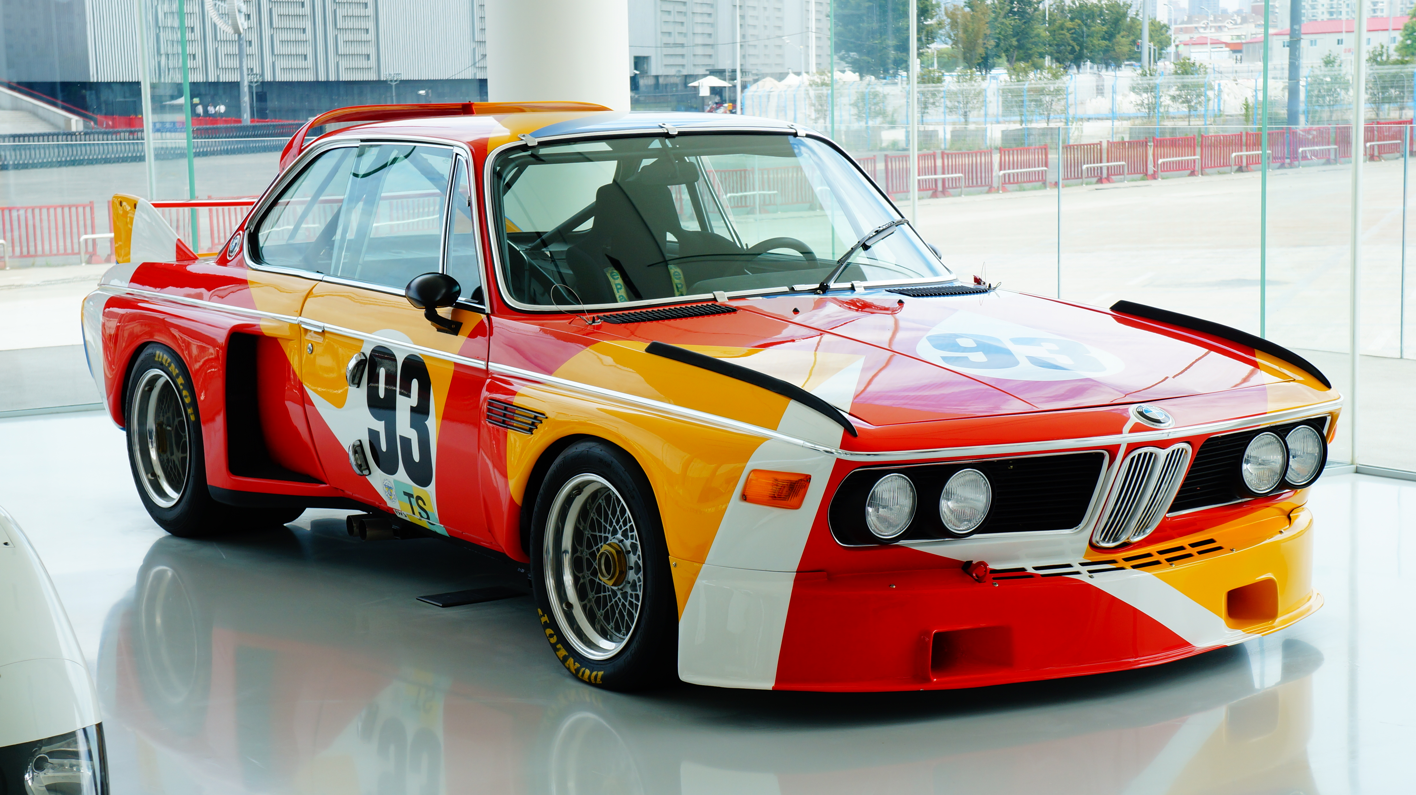 VMW racing car